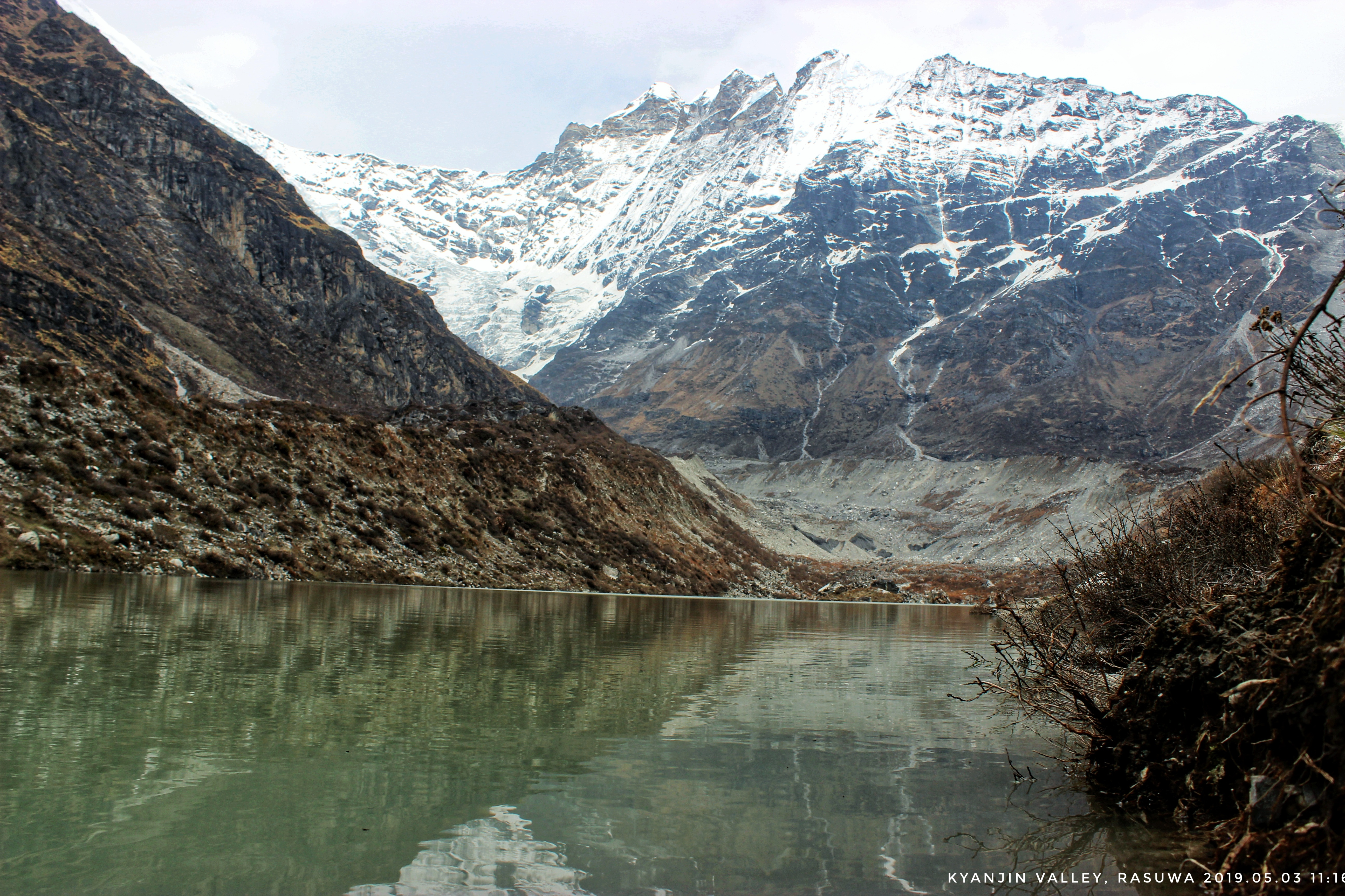 Around Kyanjin Valley, Langtang National Park, Rasuwa, Nepal